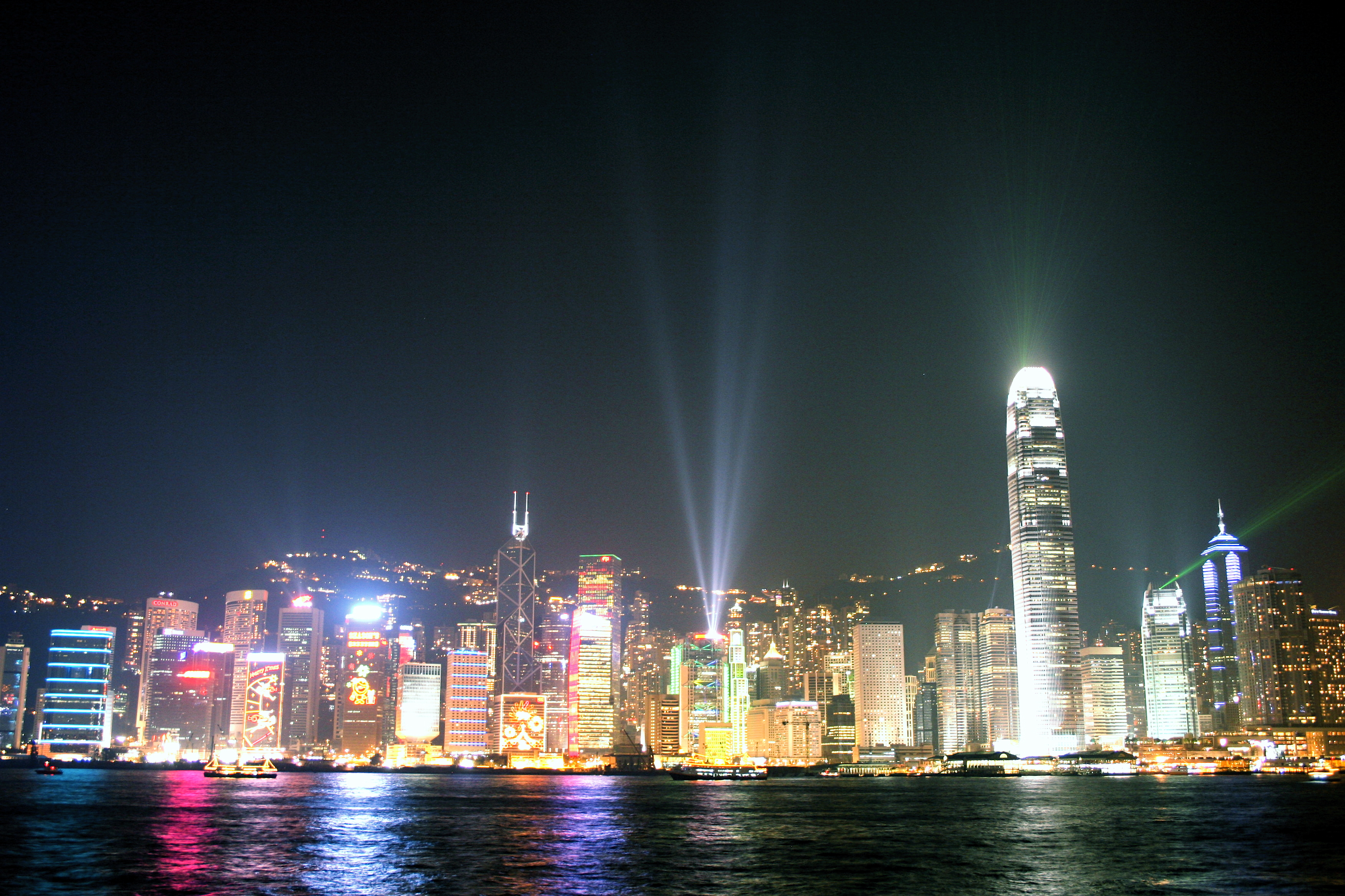 A Symphony of Lights, nightly light festival in Hong Kong.